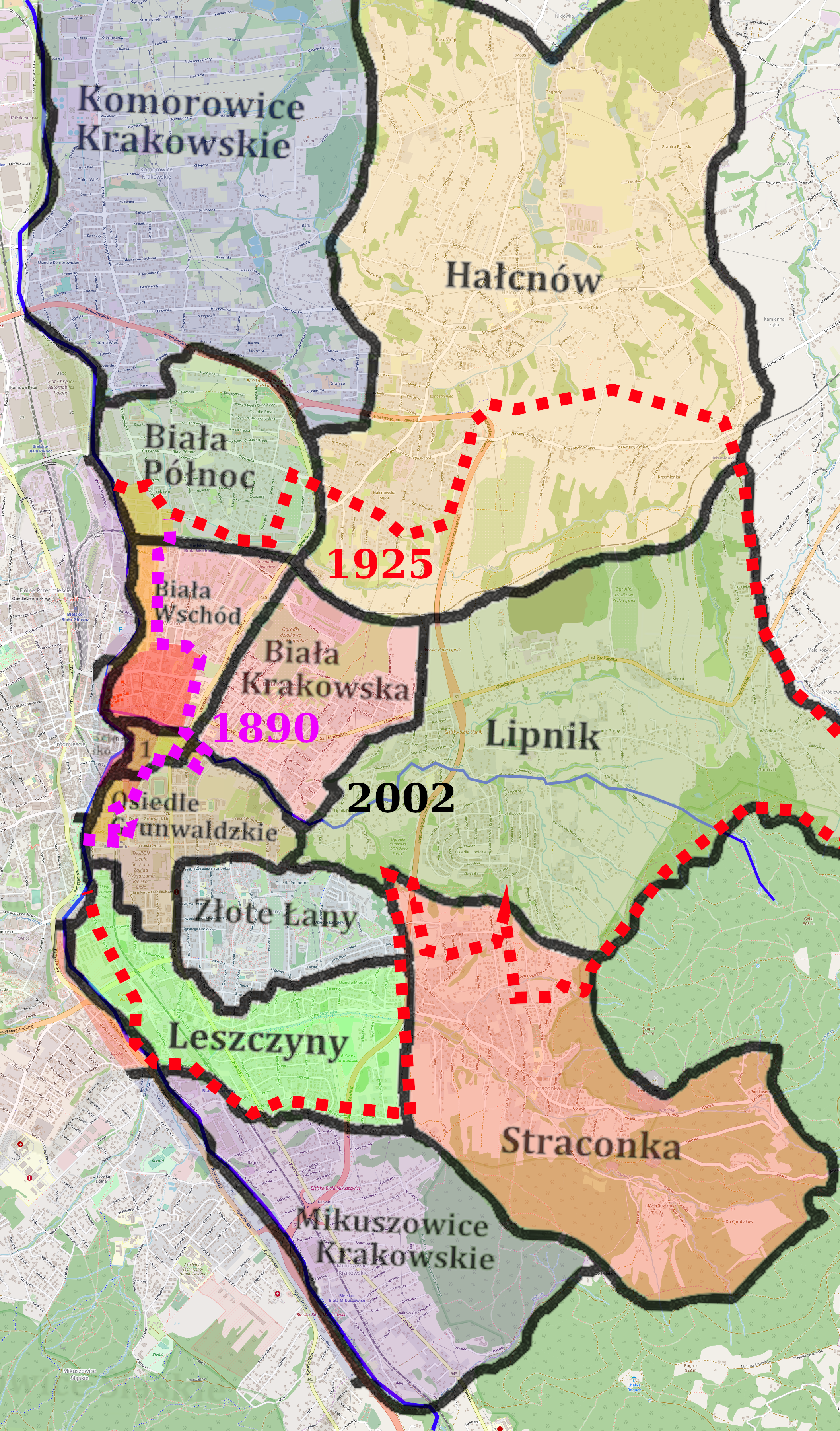 Borders of the town of Biała (Krakowska) in Lesser Poland/Galicia, now eastern part of Bielsko-Biała; pink dotted line - in 1890 (red - the town, yellow - suburbs), 1925 (merger with Lipnik), black lines - modern borders of the districts of Bielsko-Biała; Borders are based on Bielsko-Biała Monography (ISBN 978-83-60136-26-3), Volume II, p. 199,200,202,270,382; Borders of Lipnik from: [1] you can also take a look at an animated GIF file (19 MB!) File:BialaExpansion1564-2002.gif